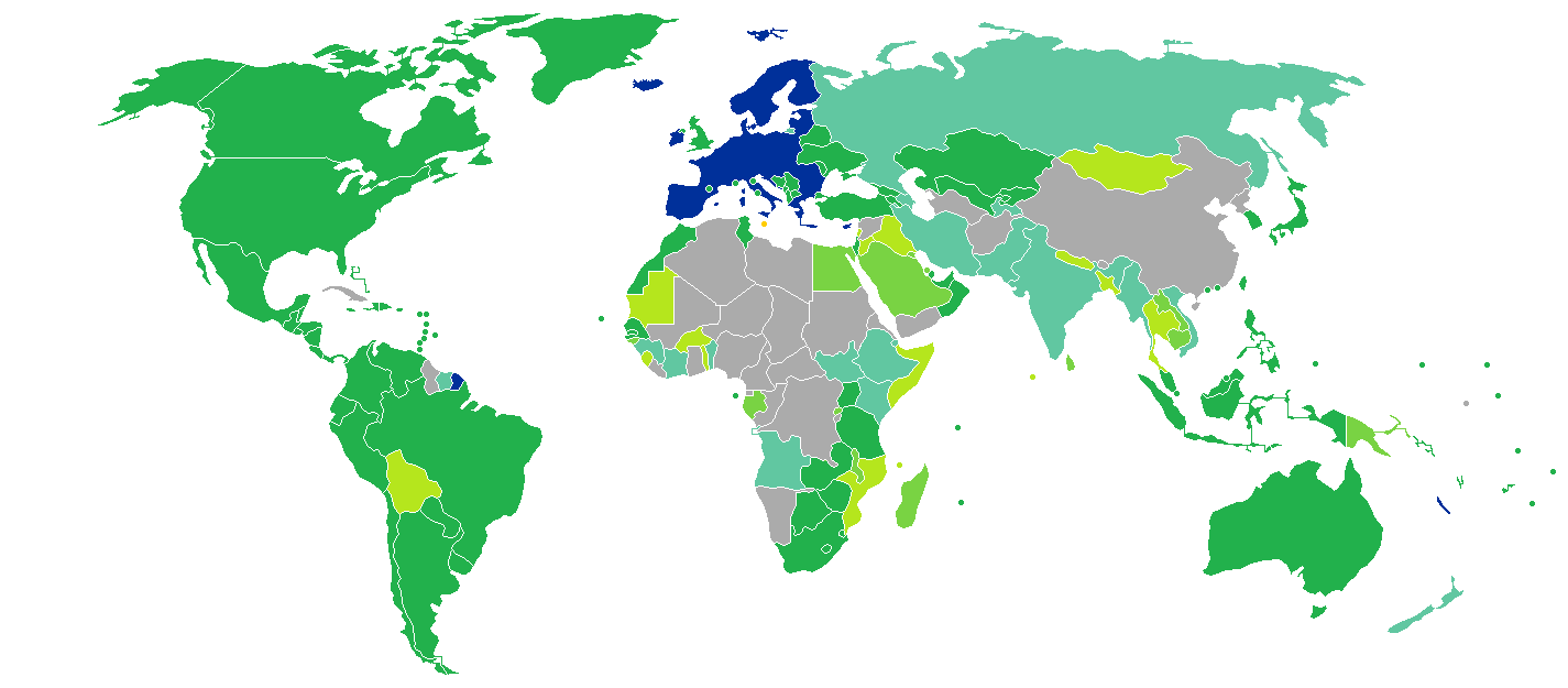 Visa requirements for Maltese citizens Malta Freedom of movement Visa not required Visa on arrival eVisa Visa available both on arrival or online Visa required prior to arrival